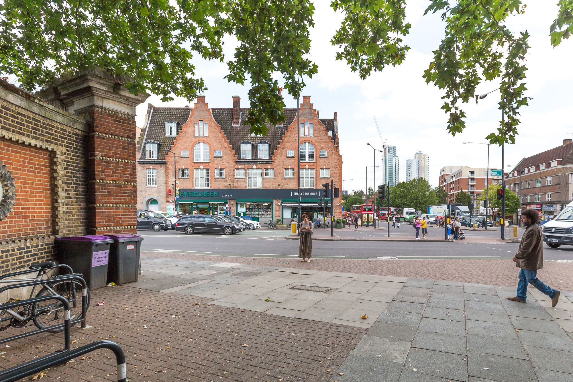 Junction of Green Lanes and Seven Sisters Road looking east. Showing the former Manor House pub in the foreground and the towers of the fast redeveloping Woodberry Down in the background.Taken from the entrance to Finsbury Park